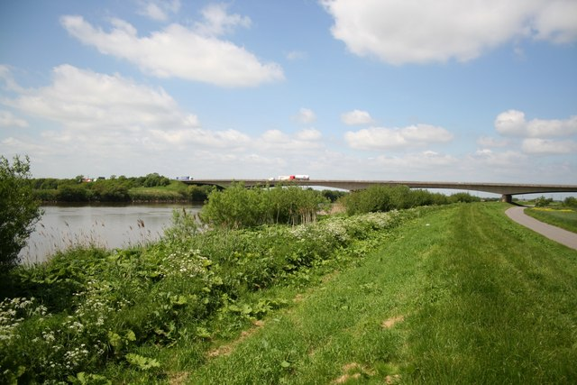 Trent Bridge. The M180 passes over the River Trent